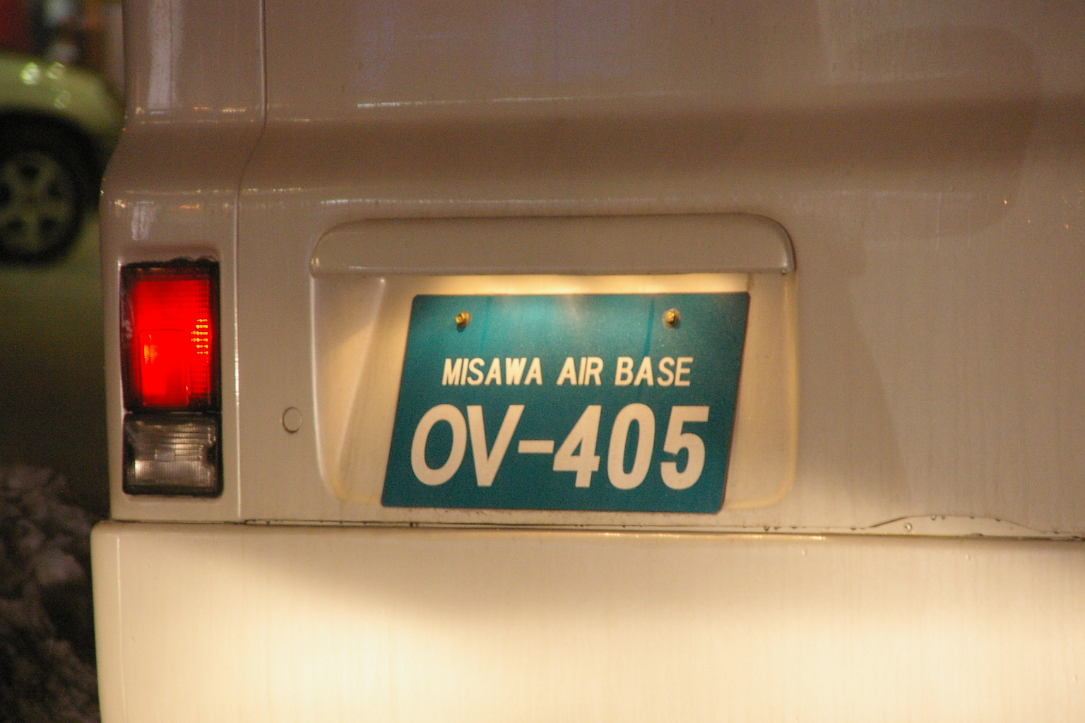 Japanese vehigle registration plate for USFJ Misawa air base.